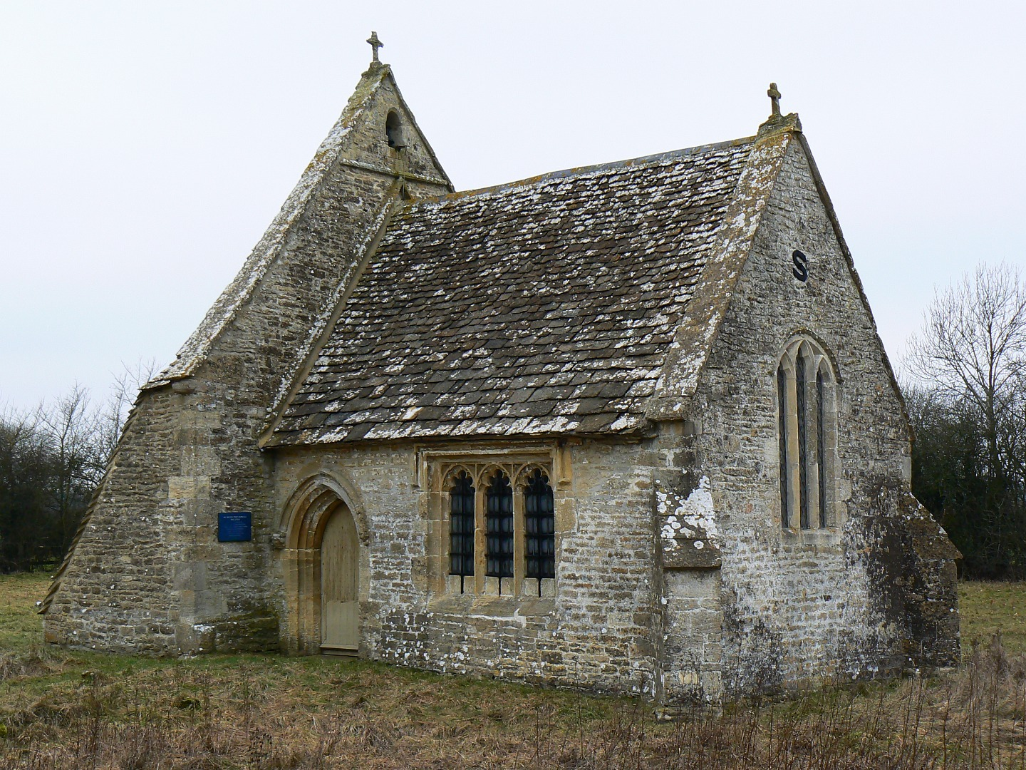 All Saints Chancel, Waterhay, Wiltshire